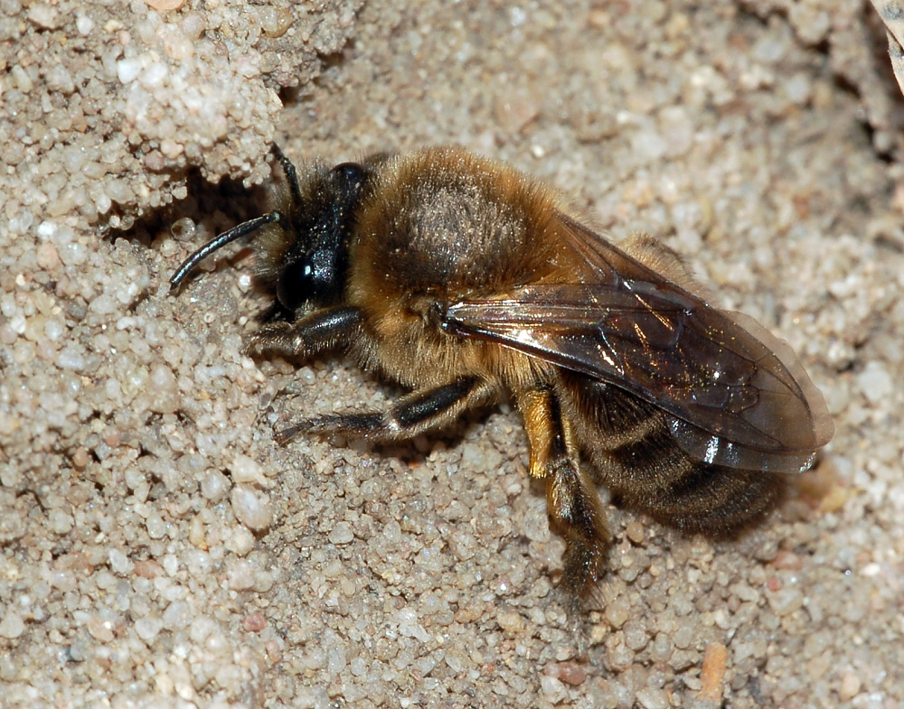 Colletes cunicularius, Schwanheim Dune, Frankfurt/Main, Germany